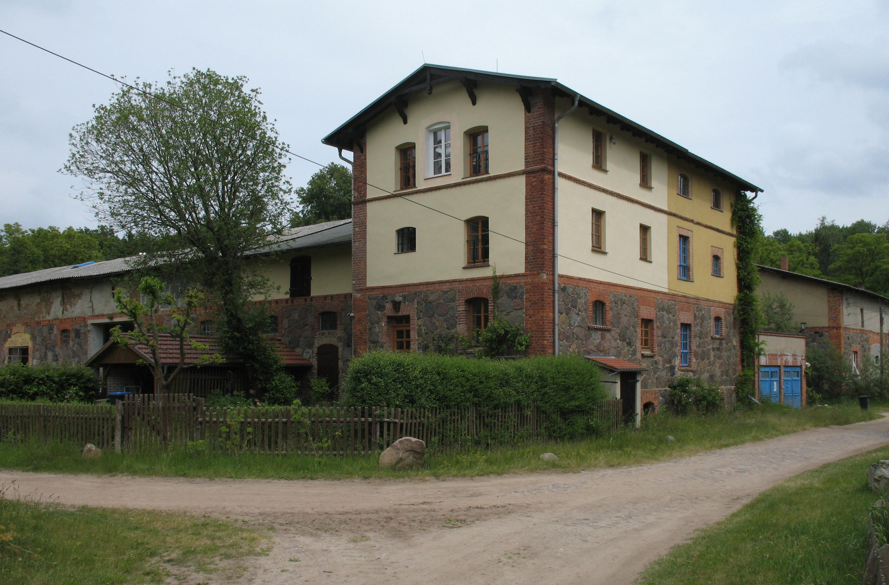 Building in Gerswalde-Arnimswalde in Brandenburg, Germany